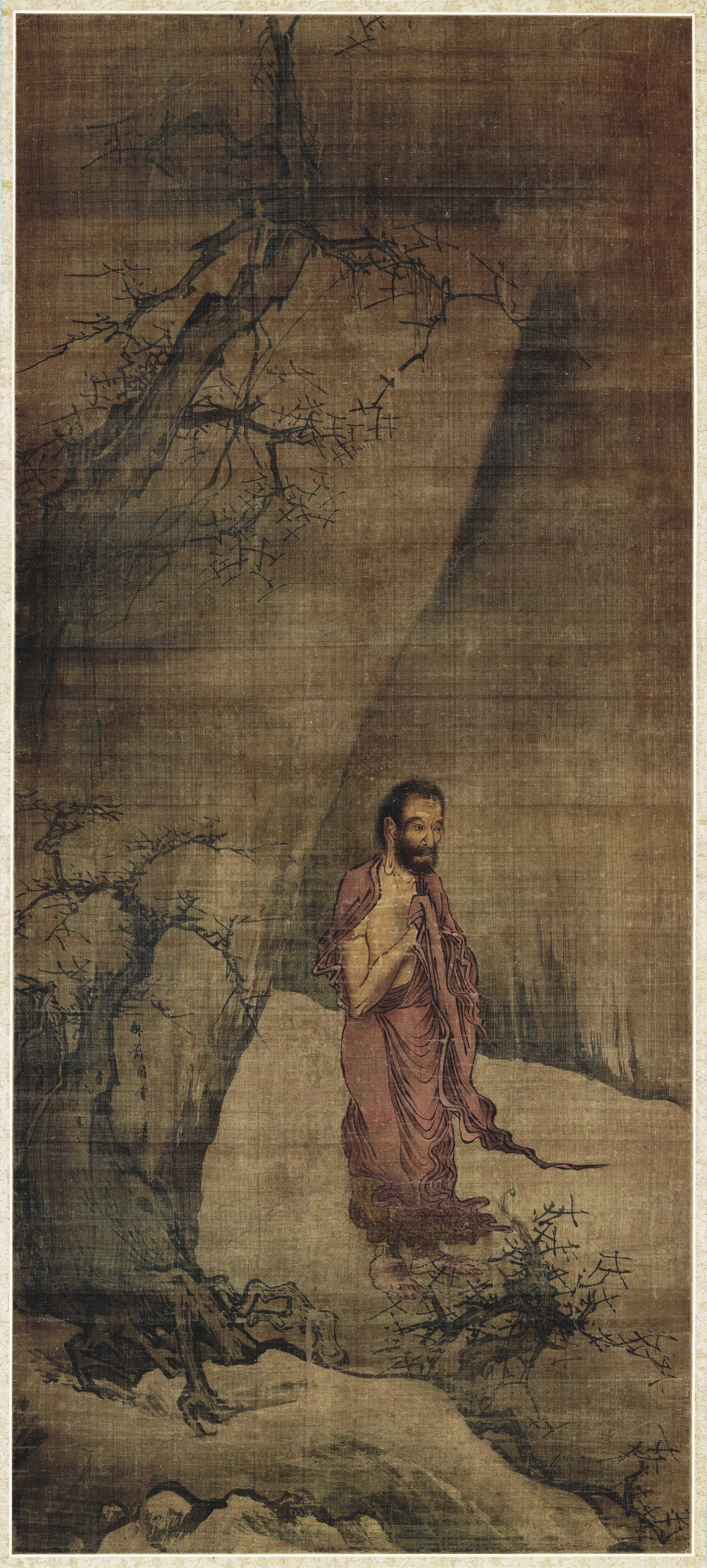 Shakyamuni Emerging from the Mountains (出山释迦图), by Chinese artist Liang Kai. Hanging scroll, ink and color on silk, 117.6 x 51.9 cm. Tokyo National Museum. See Barnhart, R. M. et al. (1997). Three Thousand Years of Chinese Painting. New Haven, Yale University Press. ISBN 0-300-07013-6 page 135